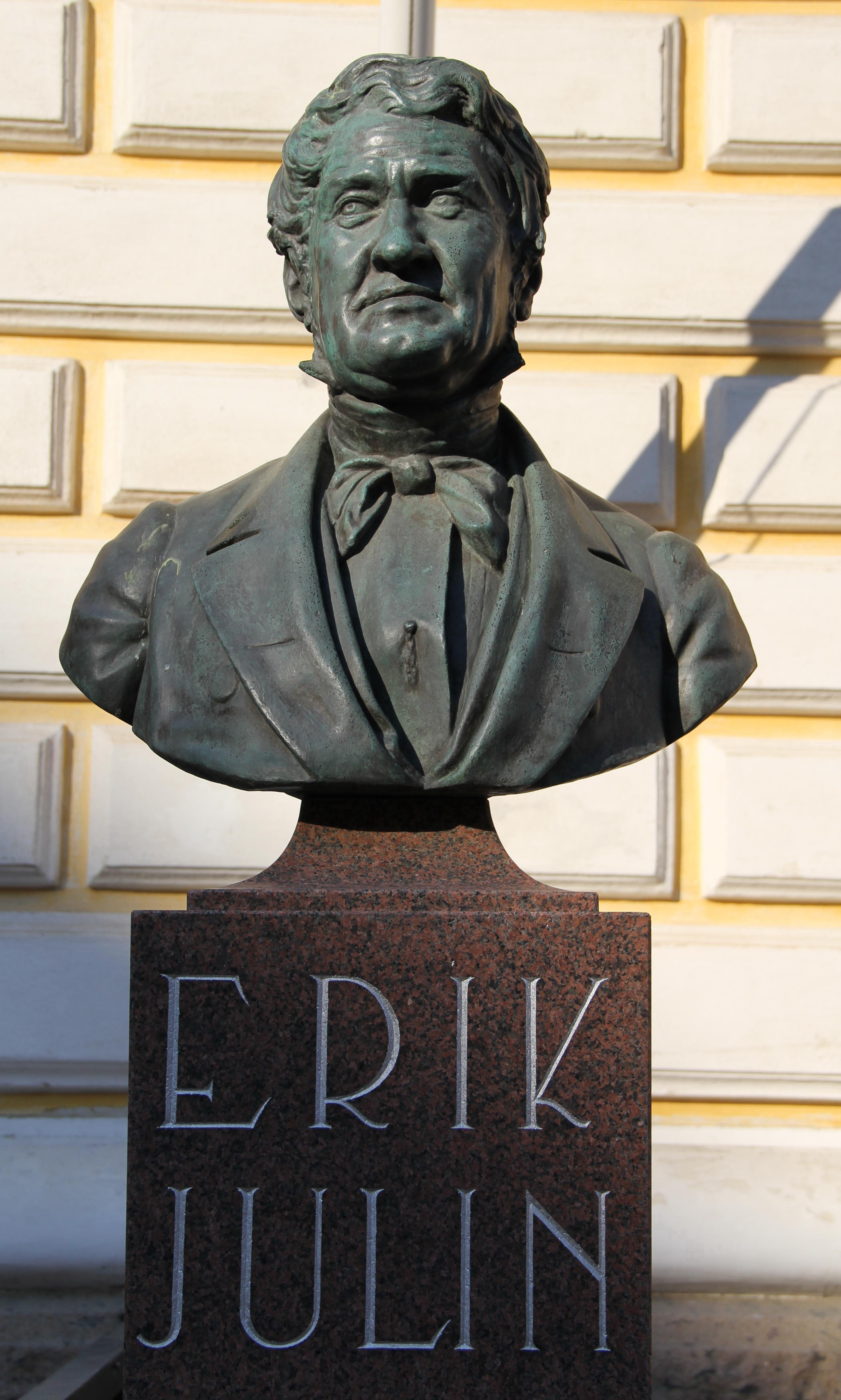 Bust of Erik Julin (1873) by finnish sculptor Walter Runeberg (1838-1920). Unveiled in 1948 and again in its current location in 2012. Location: Eskelinkatu 5, Turku, Finland.